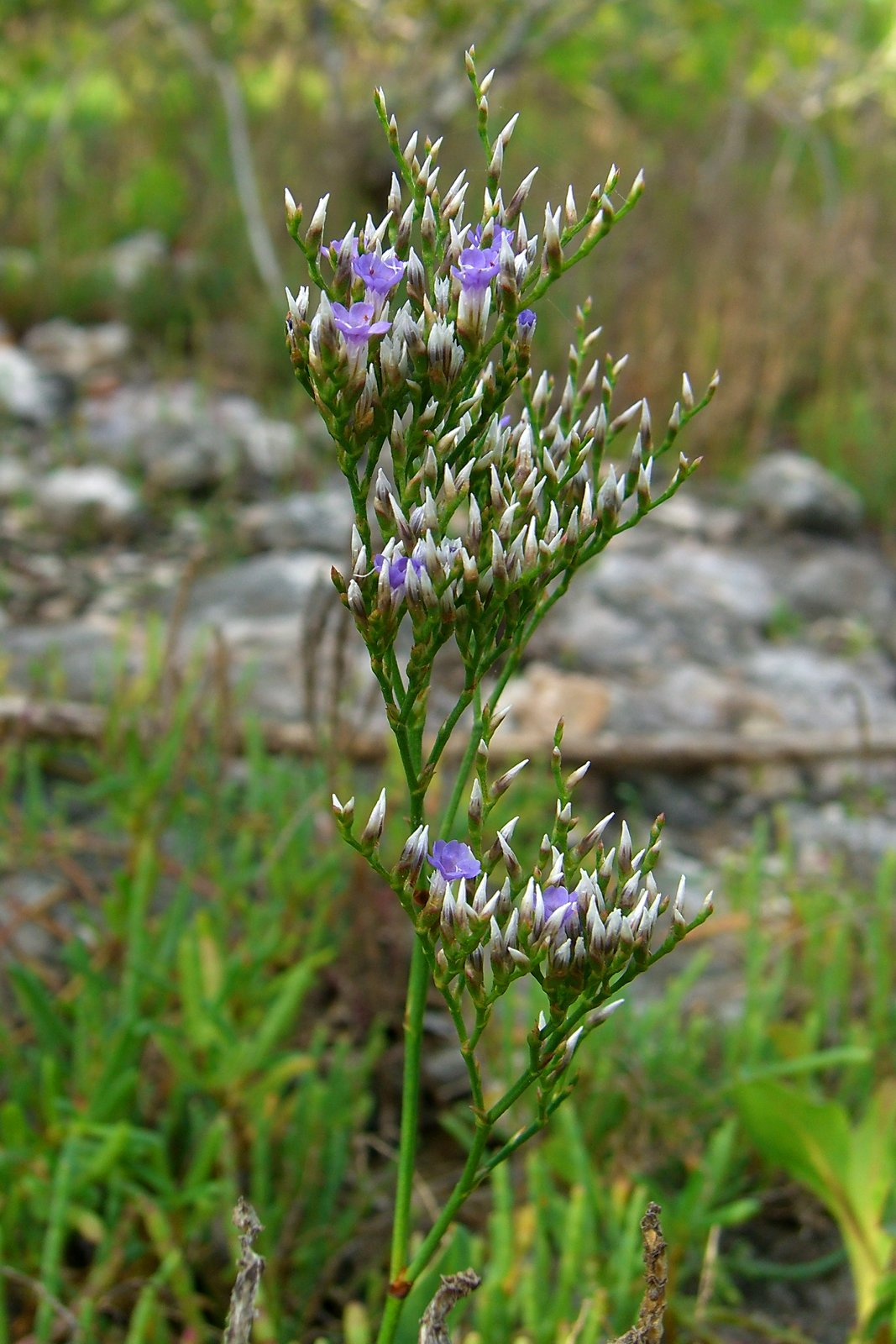 Scientific Name: Limonium carolinianum (Walt.) Britt. Common Name: Carolina Sealavender Certainty: positive (notes) Location: Florida Keys; Upper Keys; Dove Creek Hammock Date: 20070102